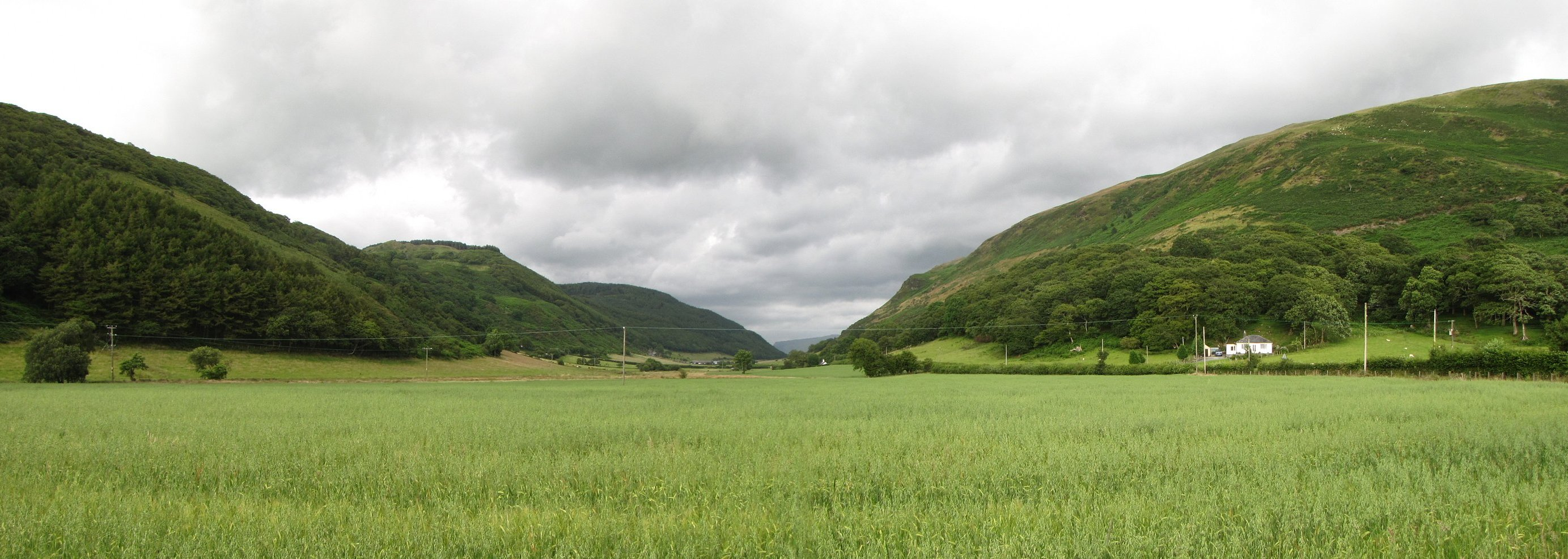 Tal-y-llyn glacial valley at Dolgoch, Gwynedd.